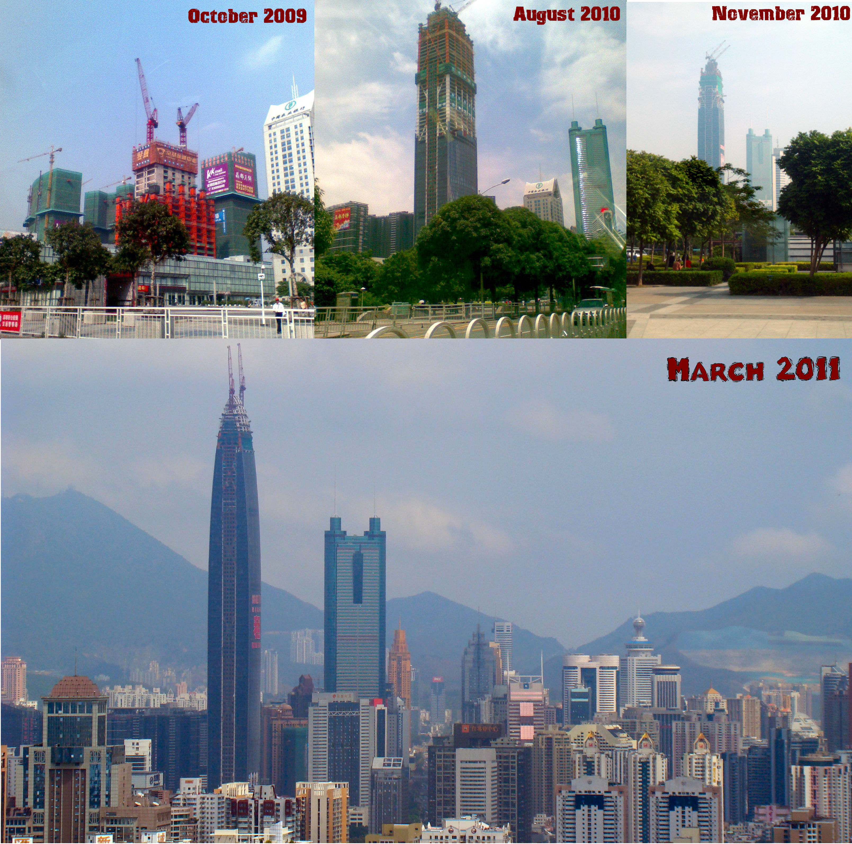 Photograph of Kingkey Finance Building, Shenzhen, P.R.C., under construction October 8th 2009. Taken by myself (Malau) and released into the public domain.